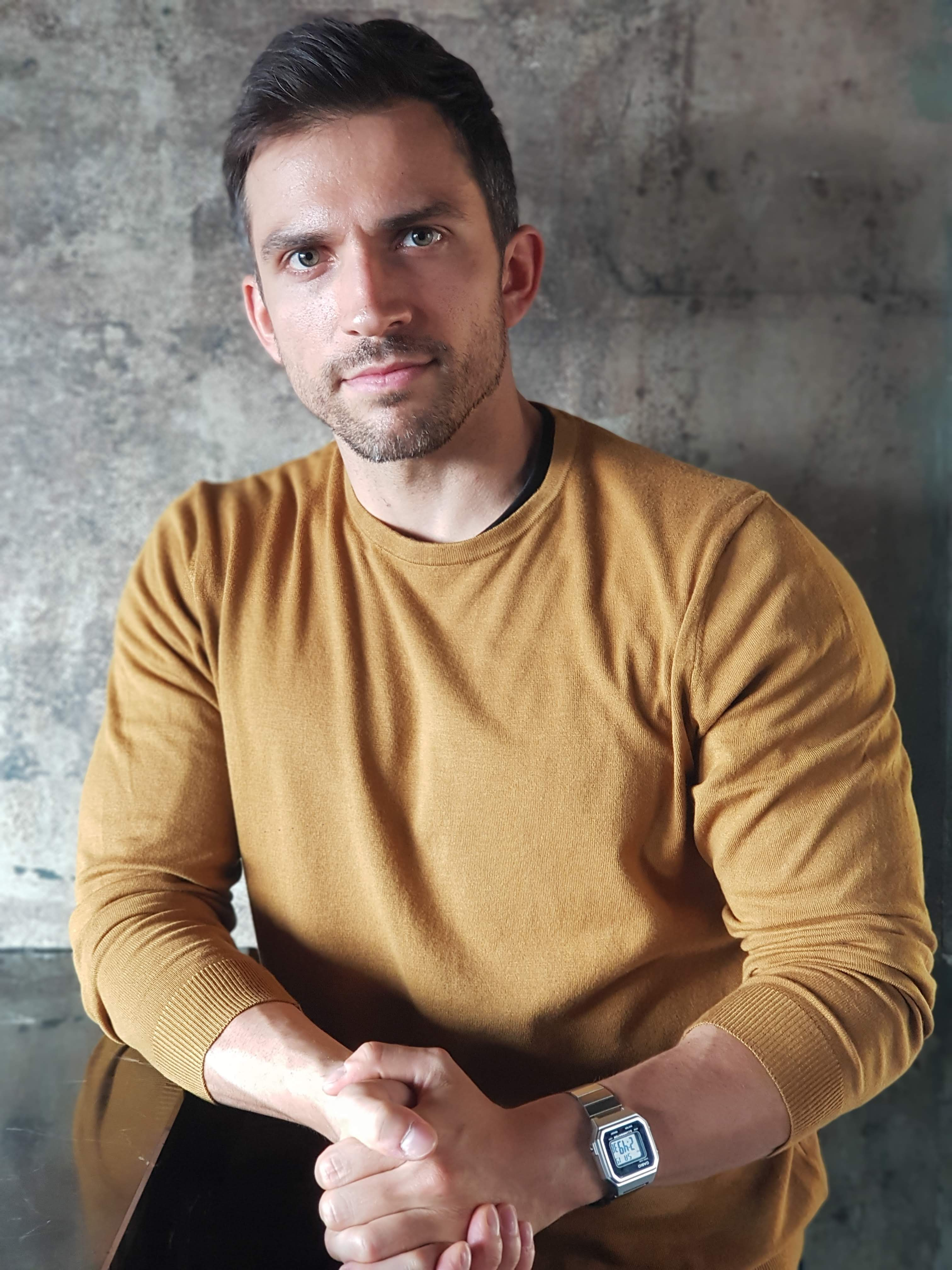 Andreas working on set at Non-Summit